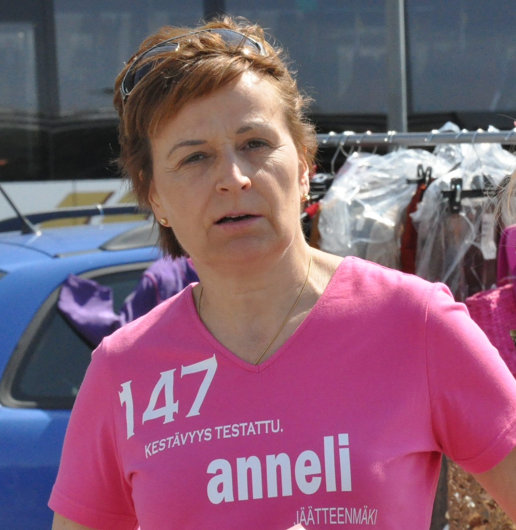 Finnish MEP Anneli Jäätteenmäki in Turku 2009.